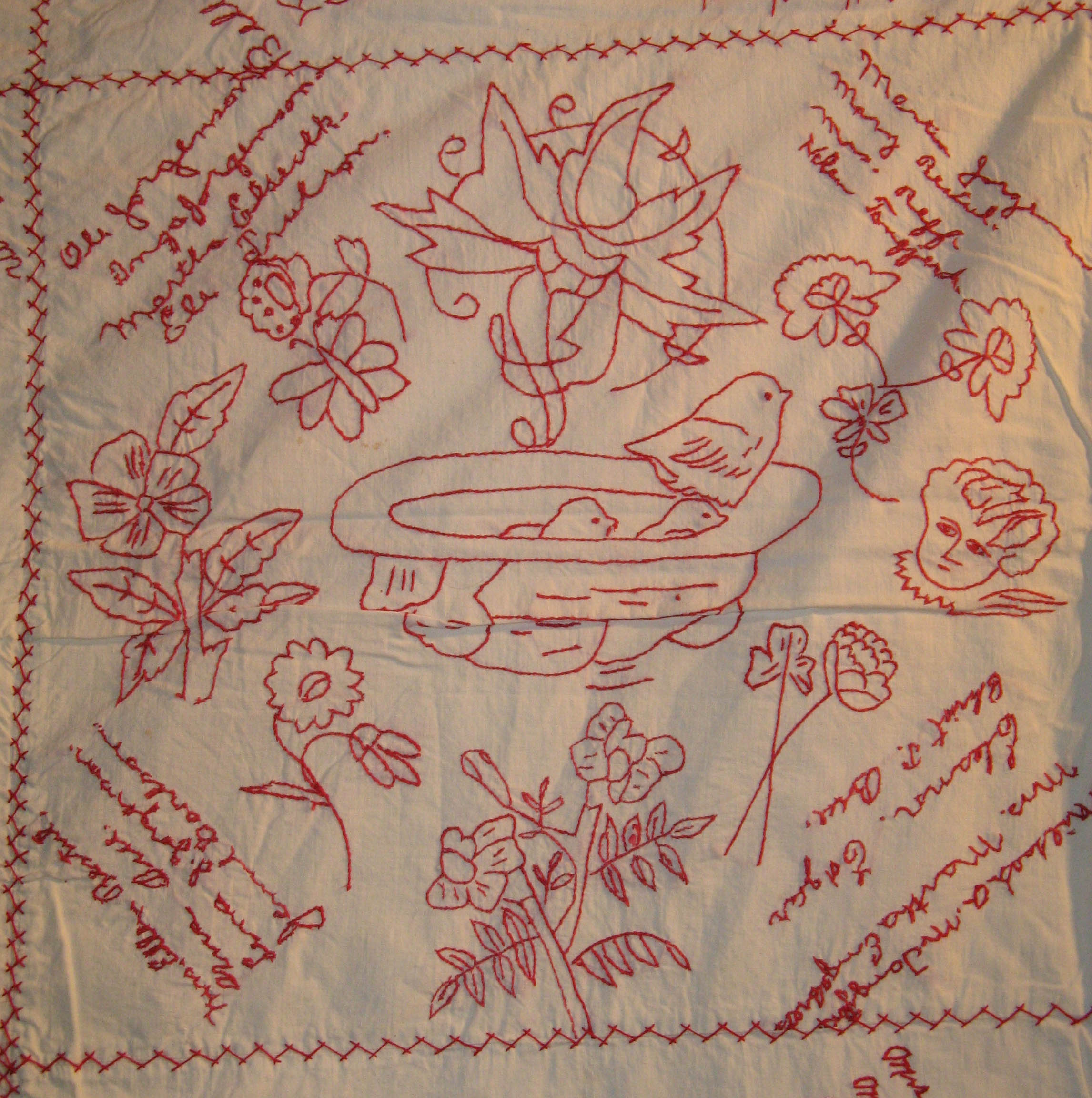 Close up of panel from a Redwork bed cover, made by the Busy Bees of Shevlin, Minnesota, 1908. Featured on the Minnesota Historical Society's Collections Up Close blog.